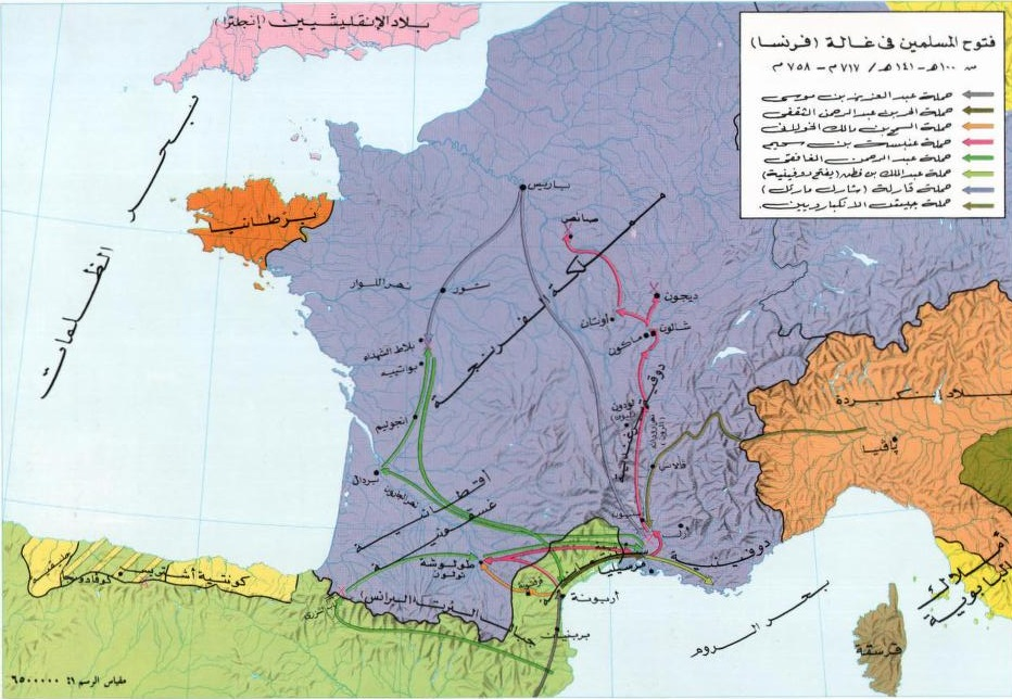 Islamic Conquests in the Gaul.